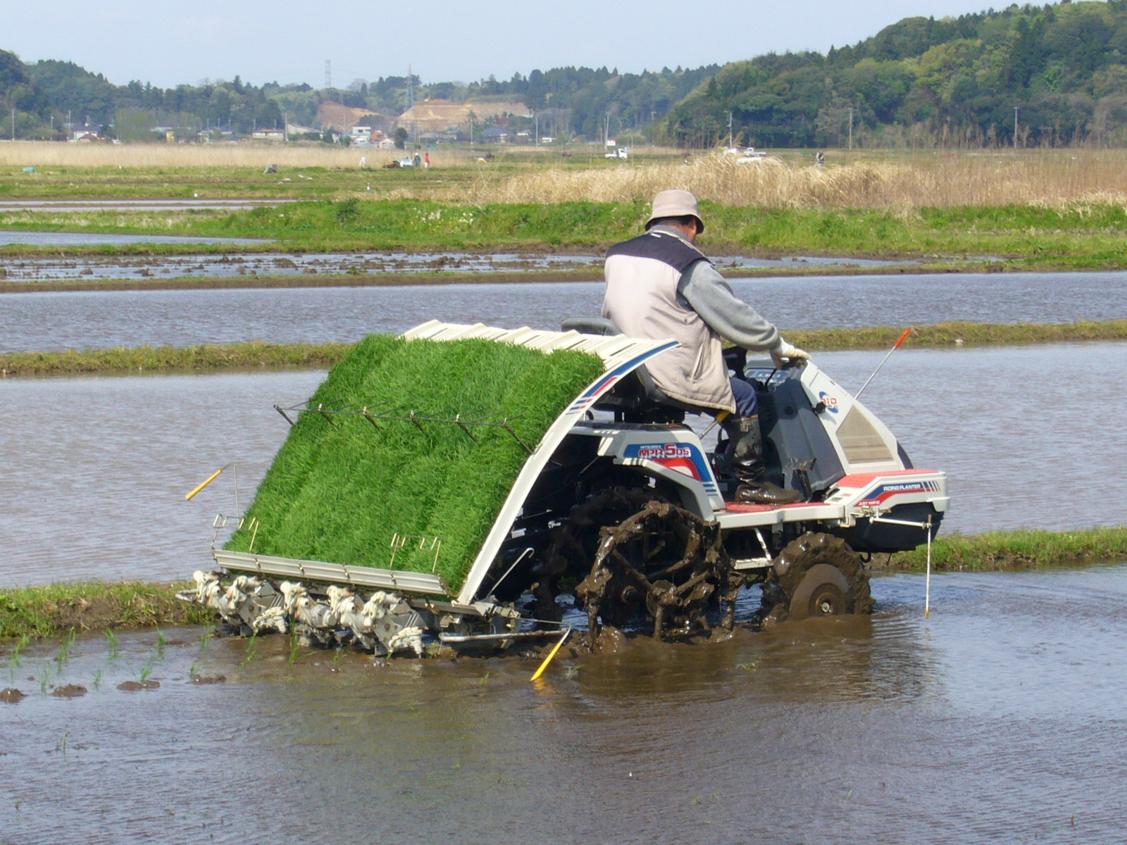 Rice-planting-machine,katori-city,japan Bân-lâm-gú: 佇日本香取市的佈稻仔機。